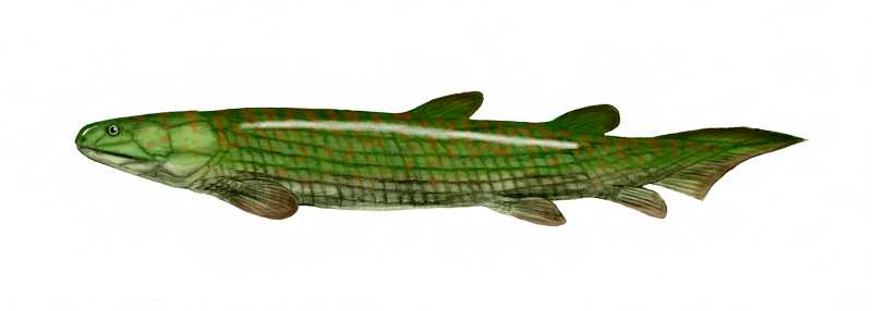 Osteolepis, a sarcopterygian devonian fish